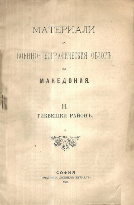 Materials for the Military and Geographical Review of Macedonia - Tikvesh 1908